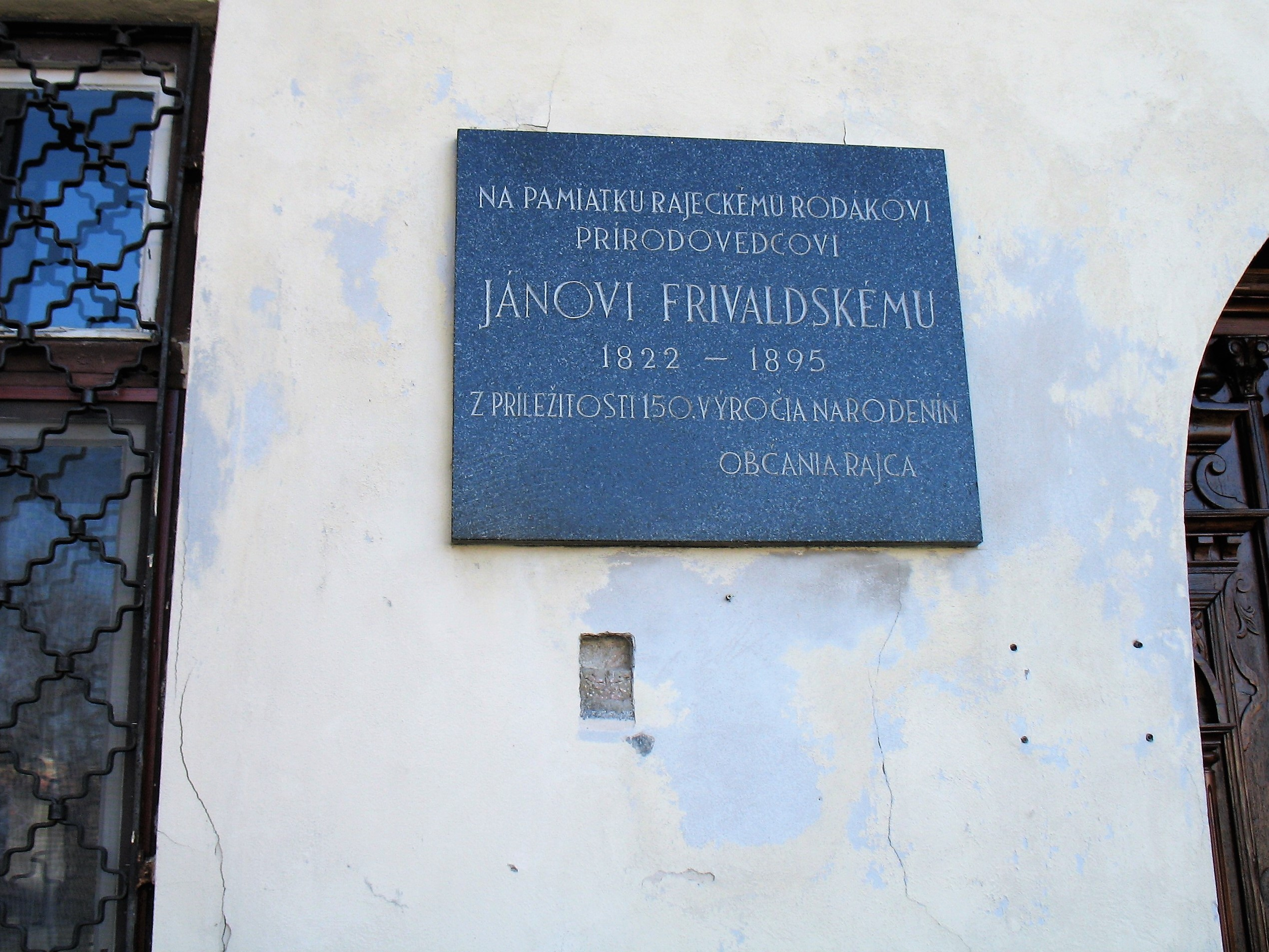 Museum in Rajec, Slovakia